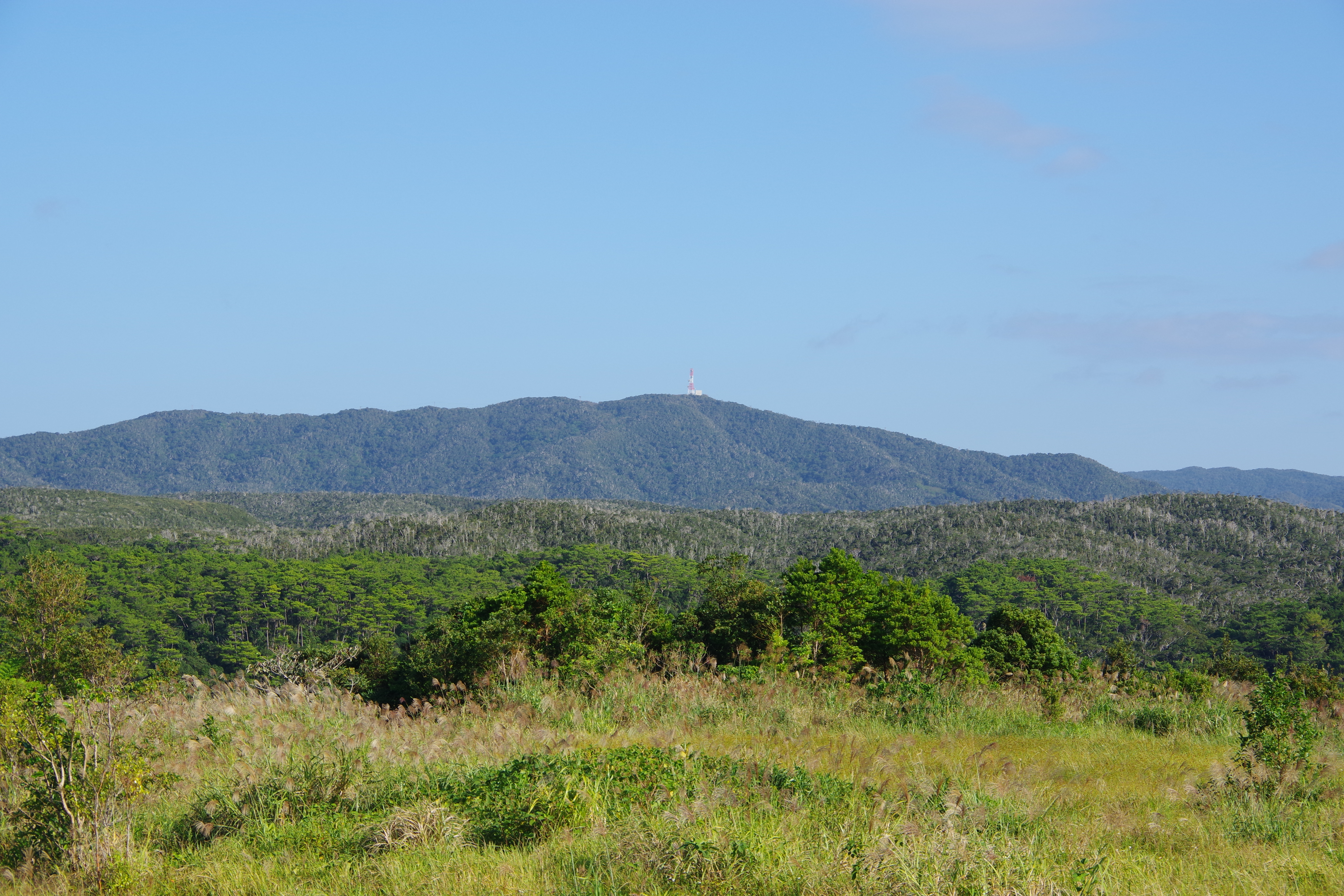 Mount Iyu at south, seen from near Fukuji Dam, Okinawa Prefecture, Japan